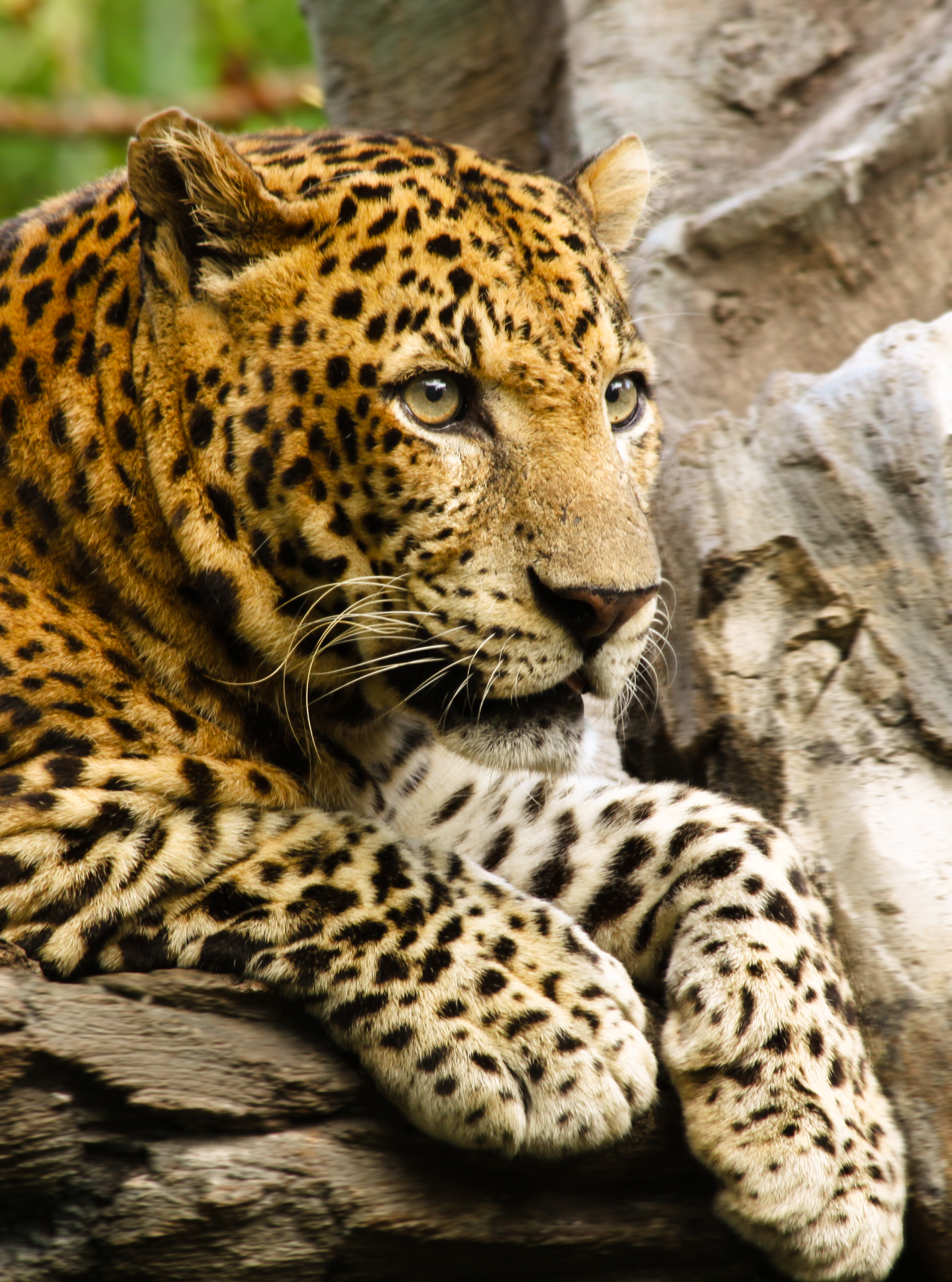 The leopard is the smallest of the four "big cats" in the genus Panthera. The image was taken in the Bali Safary Park, Bali (Sukawati, Indonesia).